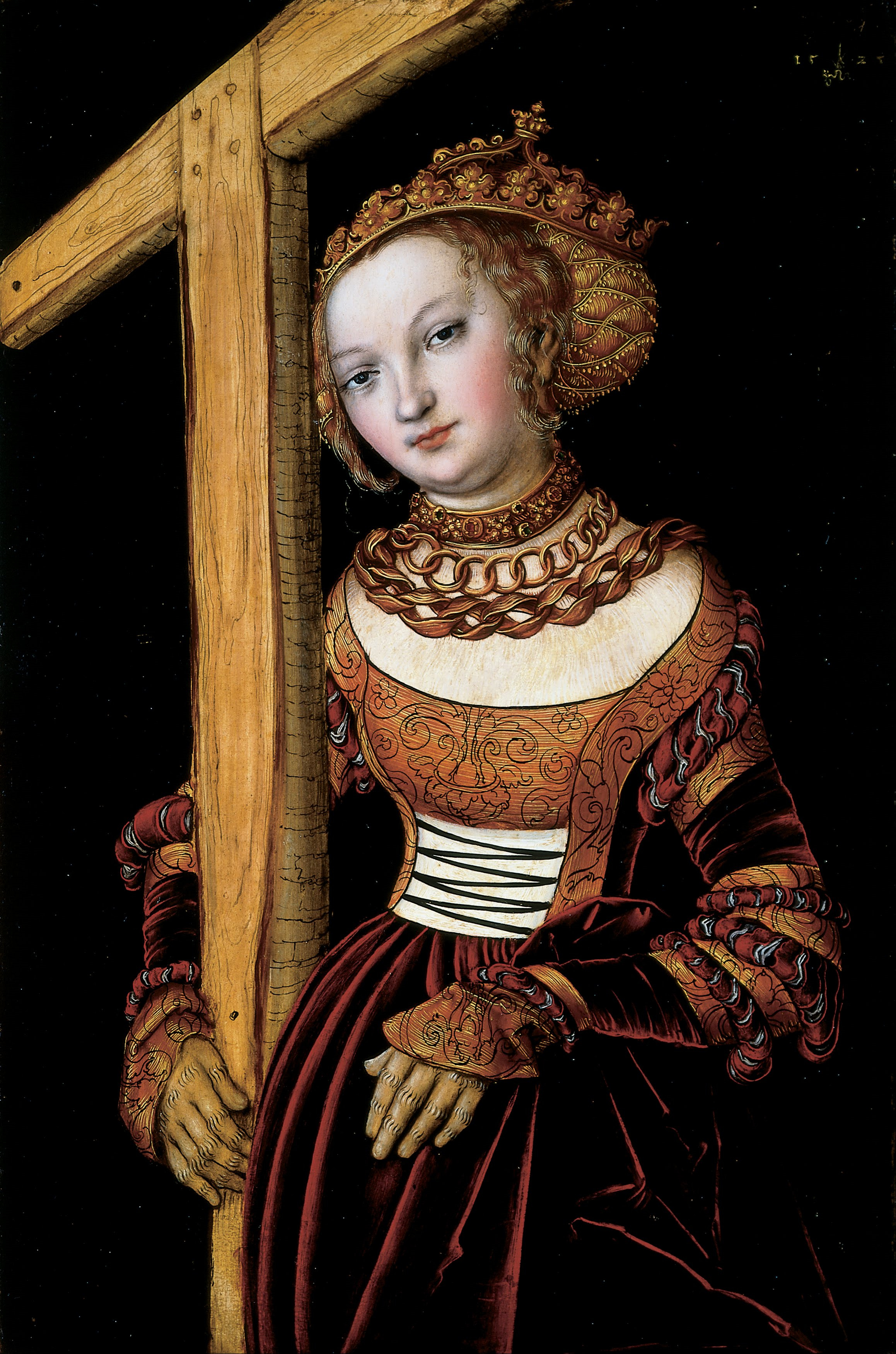 St Helena (c. 246/50-330), consort of Emperor Constantius